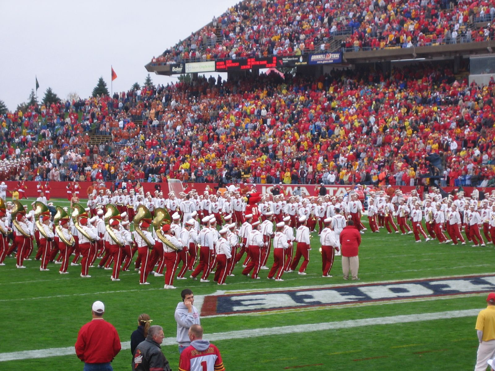 Iowa State University band at halftime of the 2007 game against Texas